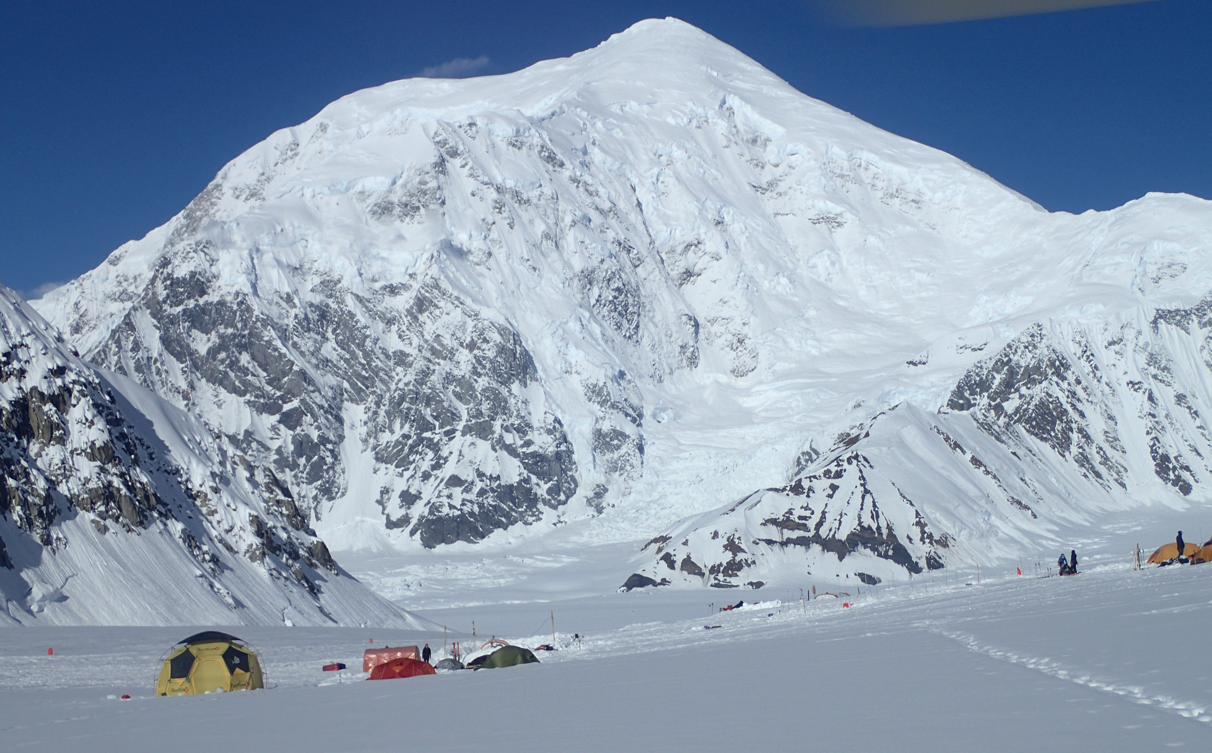 Base camp (7.400') with Mount Foraker (17,400') less than 10 miles away.